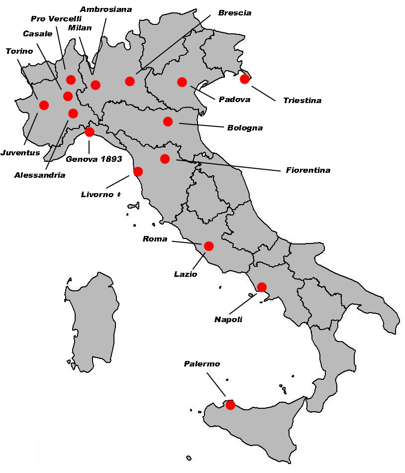 Serie A 1933-34 team locations